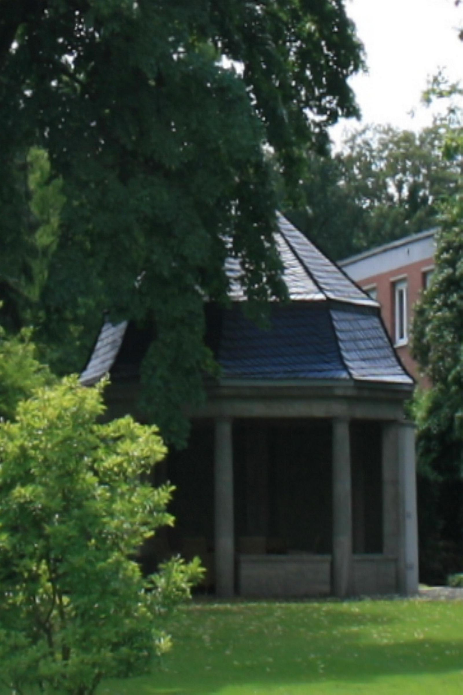 Cultural heritage monument No. M 010 in Mönchengladbach